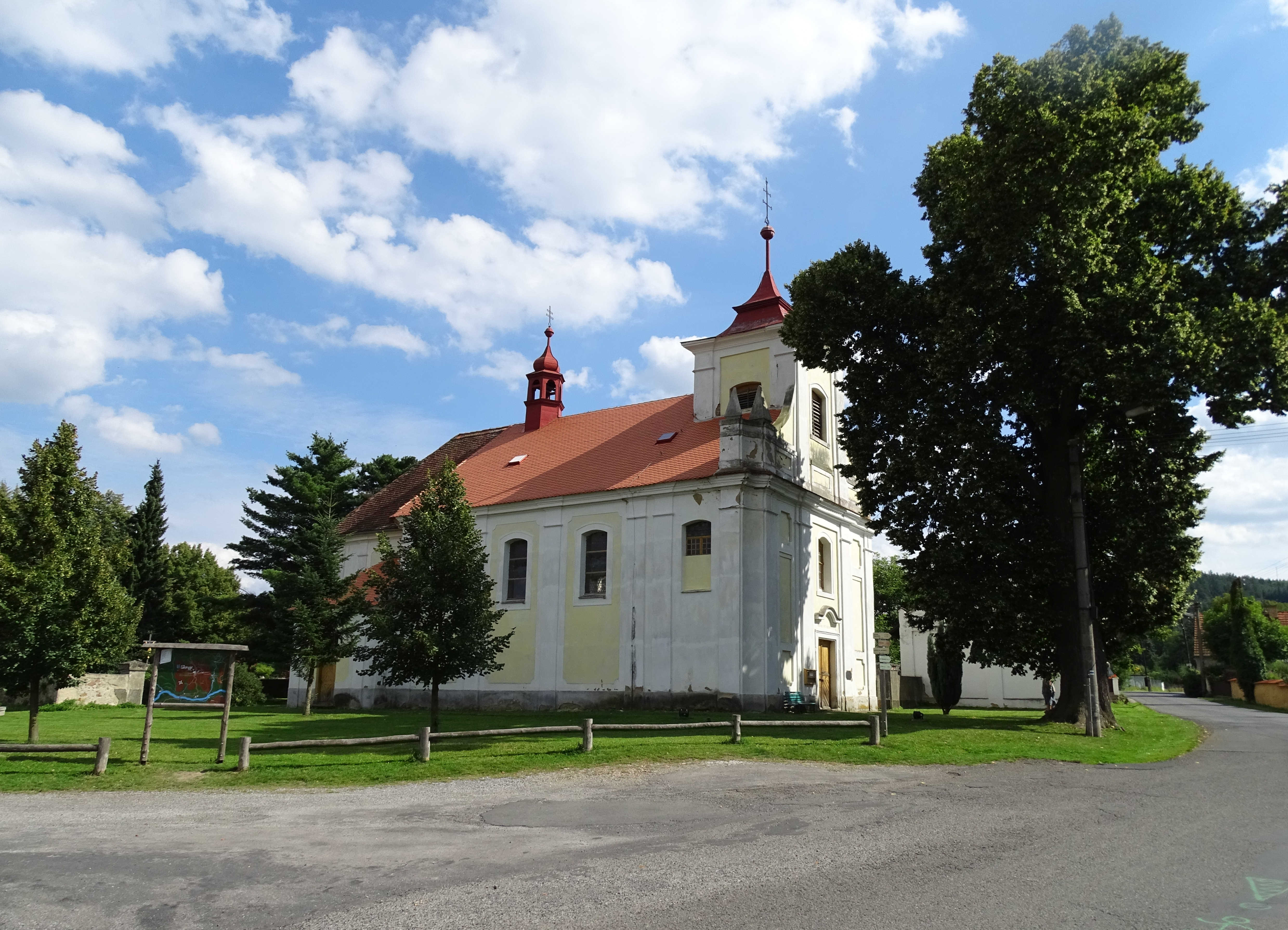 Skryje, Rakovník District, Central Bohemian Region, the Czech Republic. Church of Saint Michael.